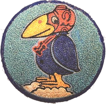 127th Observation Squadron - Emblem